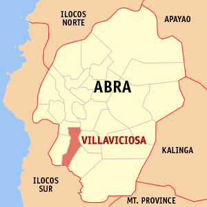 Map of Abra showing the location of Villaviciosa